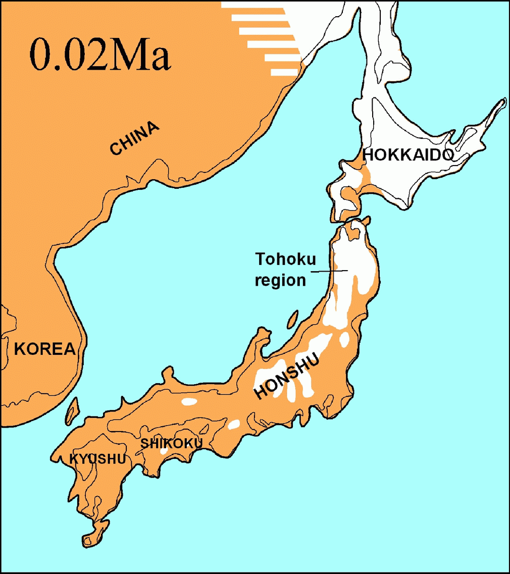 Map of the Periglacial Region in Japan at the Height of the Last Glaciation about 20,000 years ago